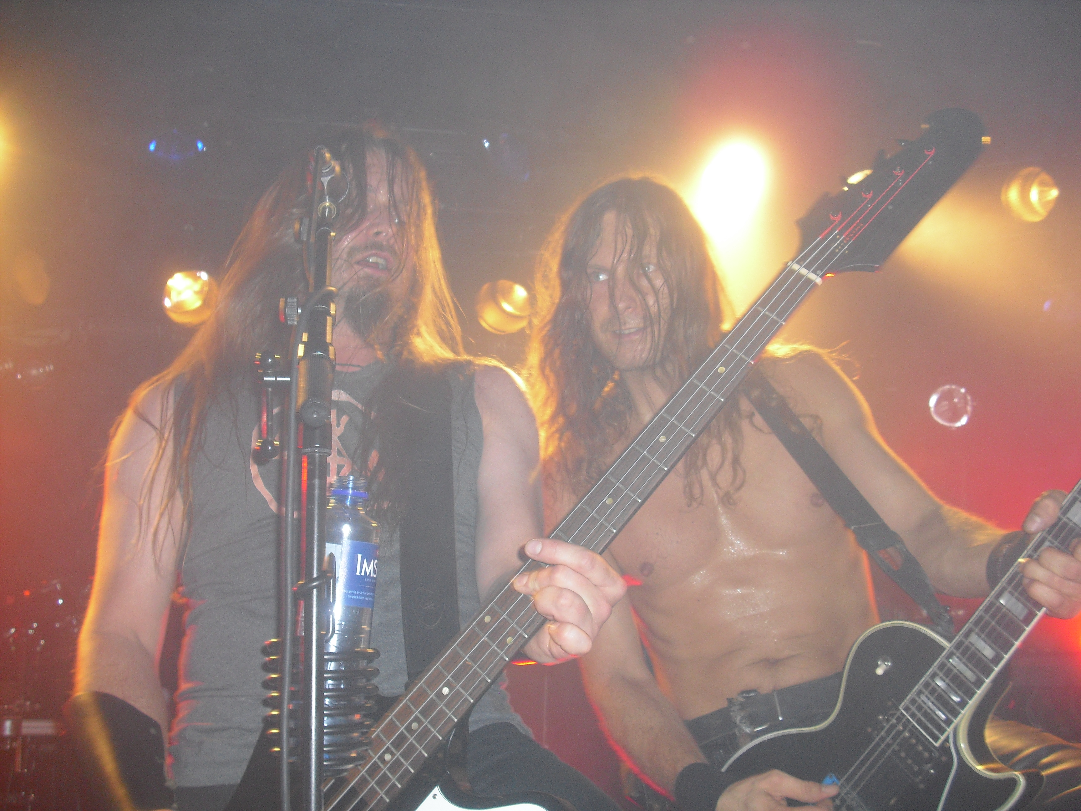 Enslaved performing live in Oslo in October 2012